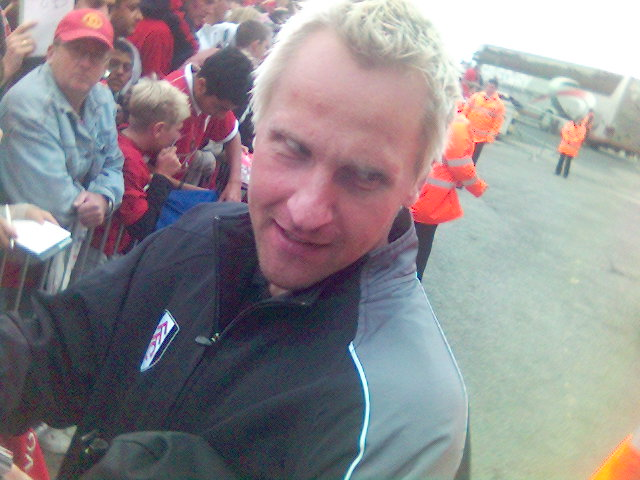 A photo of Finnish soccer goalkeeper, Antti Niemi, taken at Old Trafford football ground in Manchester